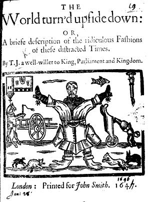 Publication by "T.J.", likely Thomas Jordan (poet), sometimes also attributed to John Taylor (1580-1653)